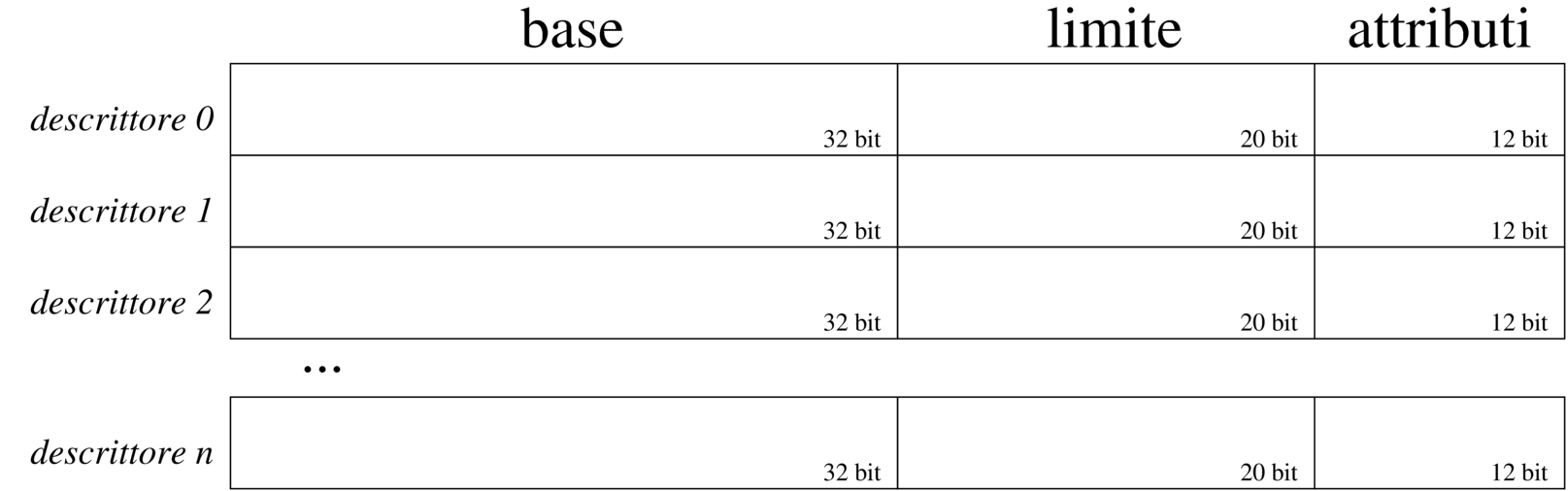 Global Descriptor Table